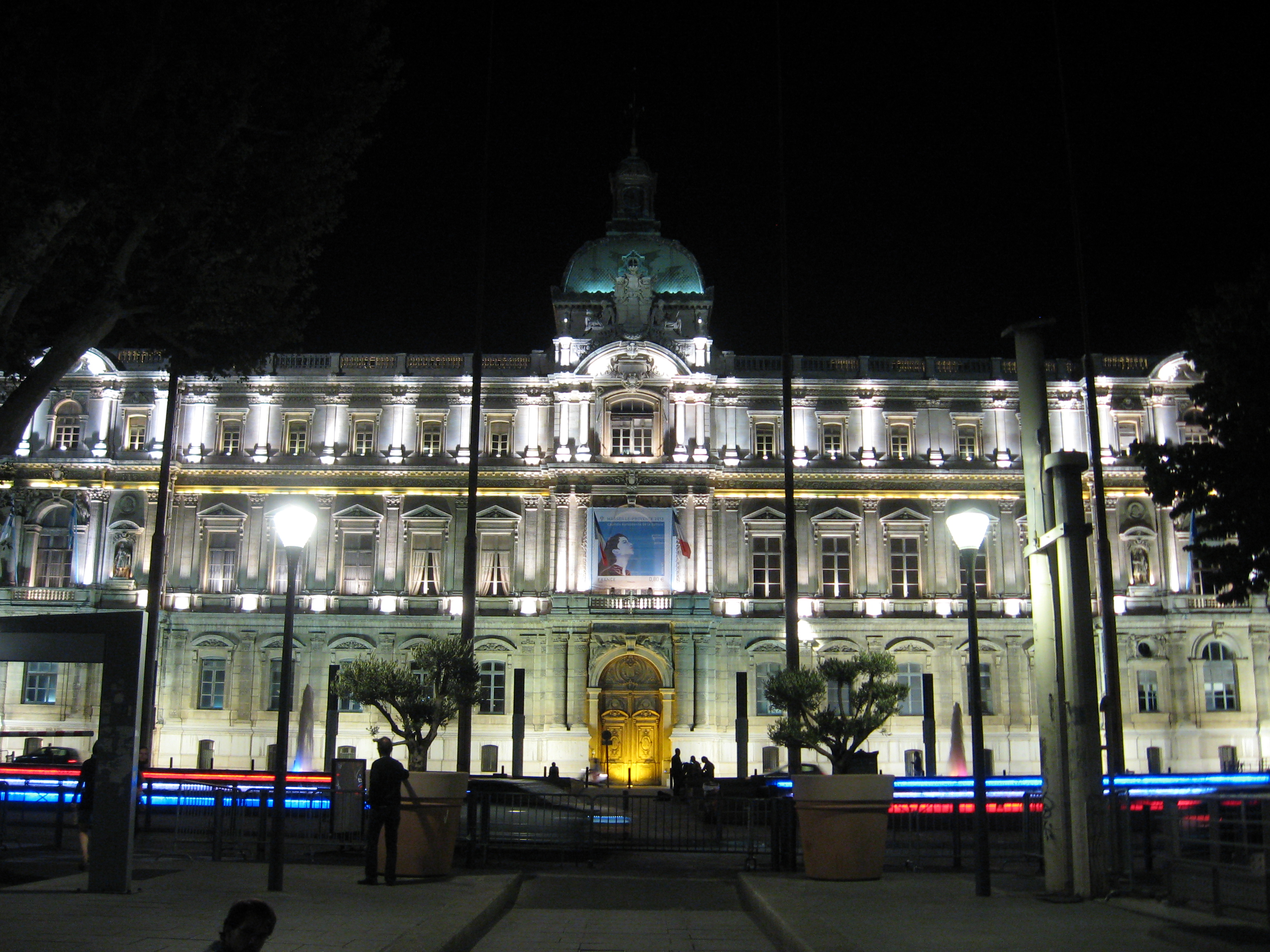 Hôtel de préfecture des Bouches-du-Rhône, Marseille, France .